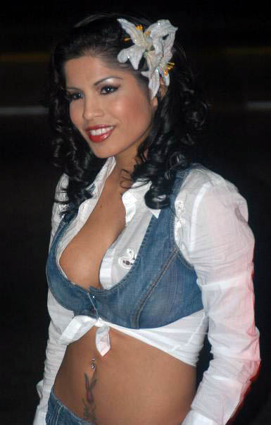 Summary Alexis Amore, taken at a party held in her honor by Video Team on February 4, en:2006 Original Photo from used with permission (see here). Photo subsequently modified by Tabercil in Photoshop, as original was too dark. Source is here 01:17, 6 February 2006 Tabercil 385x603 (55,333 bytes) ( :en:Alexis Amore , taken at a party held in her honor by Video Team on :en:February 4 , :en:2006 Original Photo from used with permission (see :en:here ). Photo subsequently modified by Tabercil in )